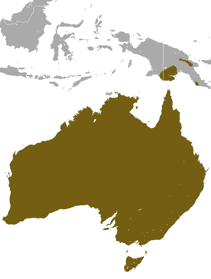 Short-beaked Echidna (Tachyglossus aculeatus) range